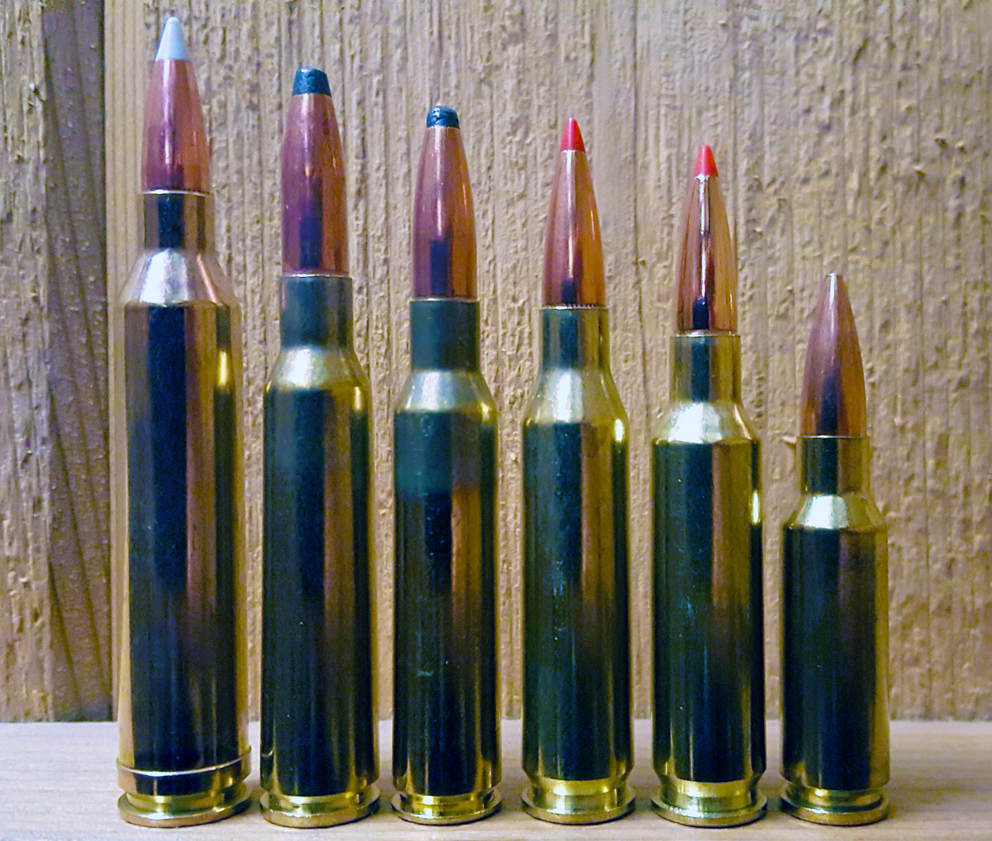 Color corrected to achieve overall color balance.